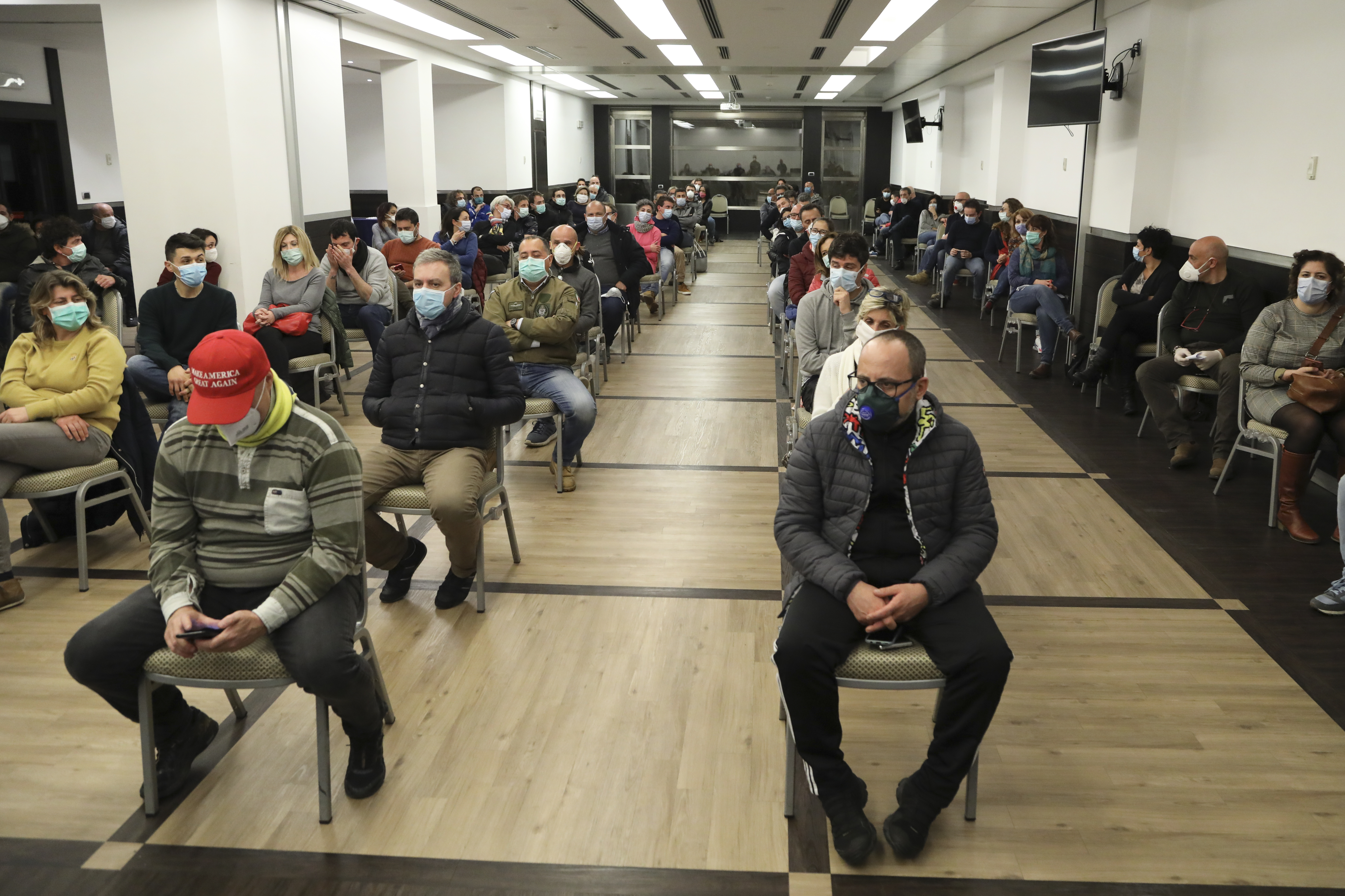 The first nucleus of 93 nurses of the Coronavirus taskforce leaving to support the health structures of Emilia-Romagna, Liguria, Lombardy, Marche, Piedmont, Trentino and Valle d'Aosta.